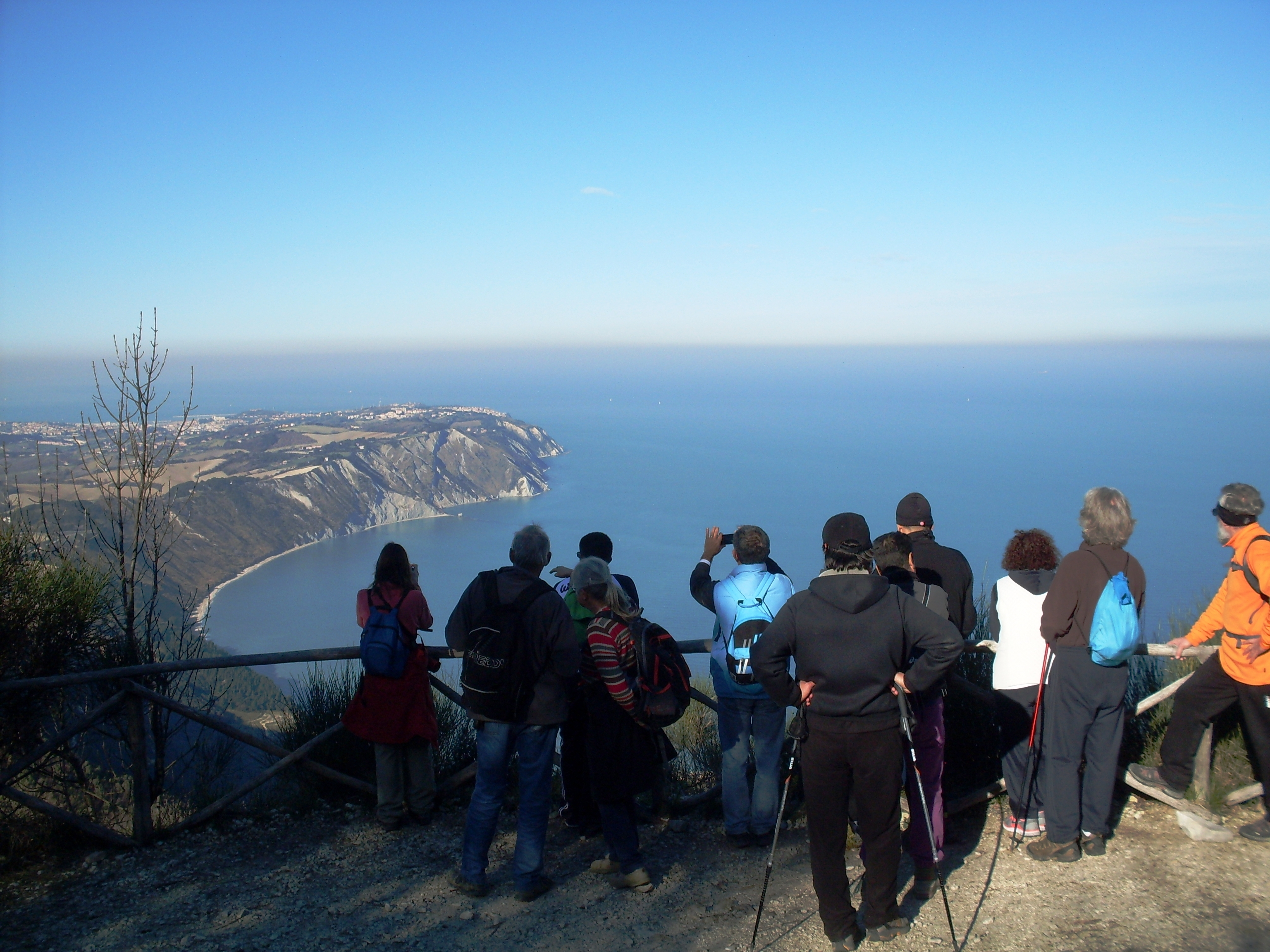 Italy Ancona Monte Conero - Northern Viewpoint